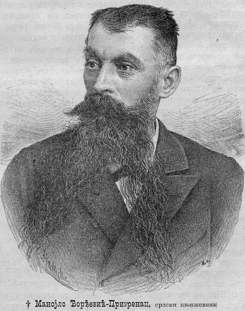 Manojlo Đorđević-Prizrenac, Serbian writer.